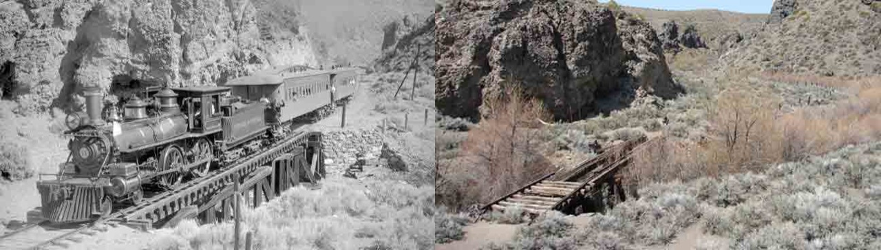 Washoe Canyon RR Then and Now. I took this shot on the right awhile ago in Pagni/Allen's/Washoe Canyon just north of Washoe Valley and then saw this old photo on the left again and realized I shot it from almost the same place by accident. This is the Virginia and Truckee Railroad line between Virginia City and Reno, Nevada. See more in my Then and Now set.